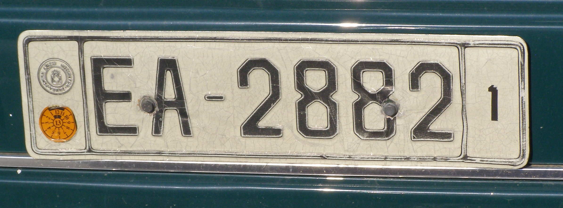 Piraeus - a licence plate issued between 1972 and 1983